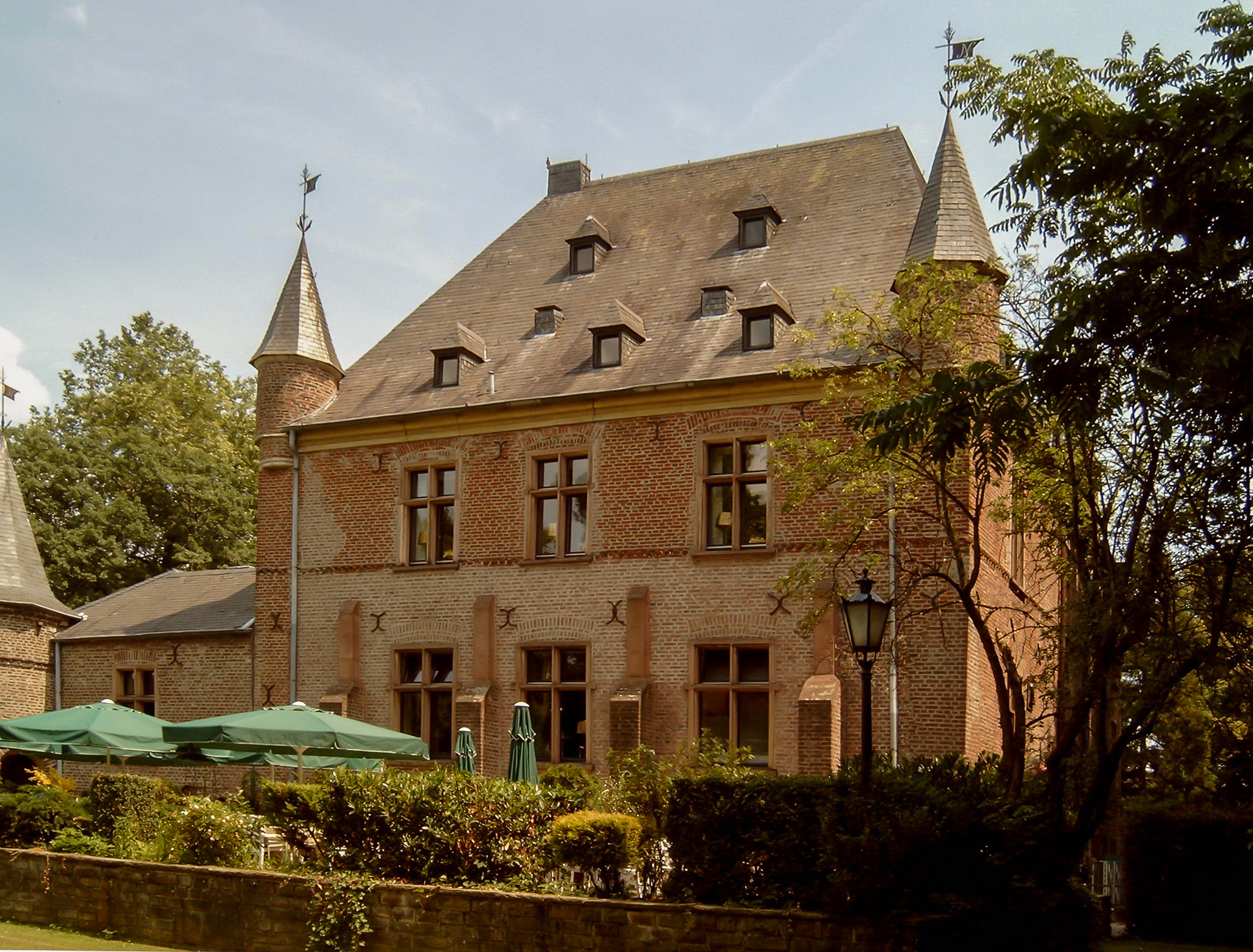 Lobberich, castle Burg Ingenhoven